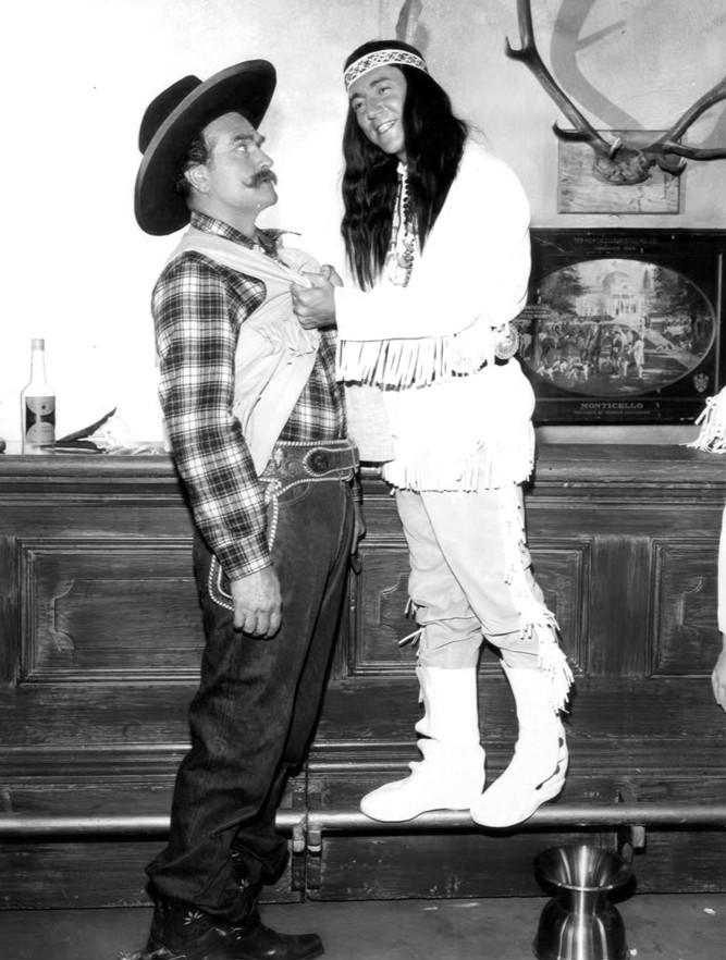 Photo of Red Skelton and singer Bobby Darin in a skit from the television program The Red Skelton Show. Skelton plays his "Deadeye" character while Darin plays someone who takes issue with him.